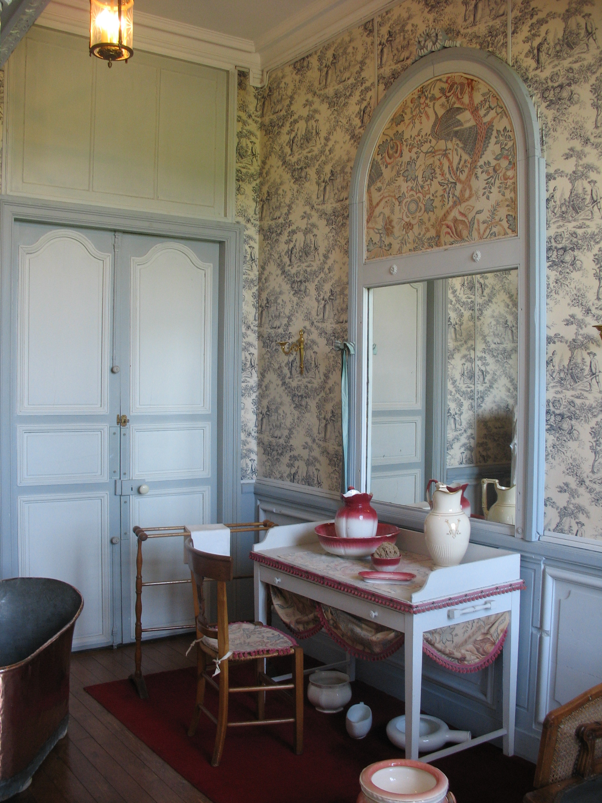 Le château de Valençay, interior